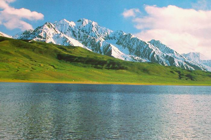 Shandoor Lake.